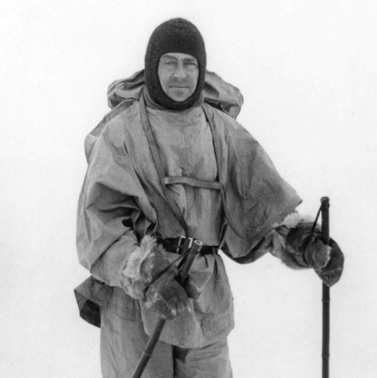 Photograph of Captain Scott taken during the Terra Nova Expedition, 1910–12